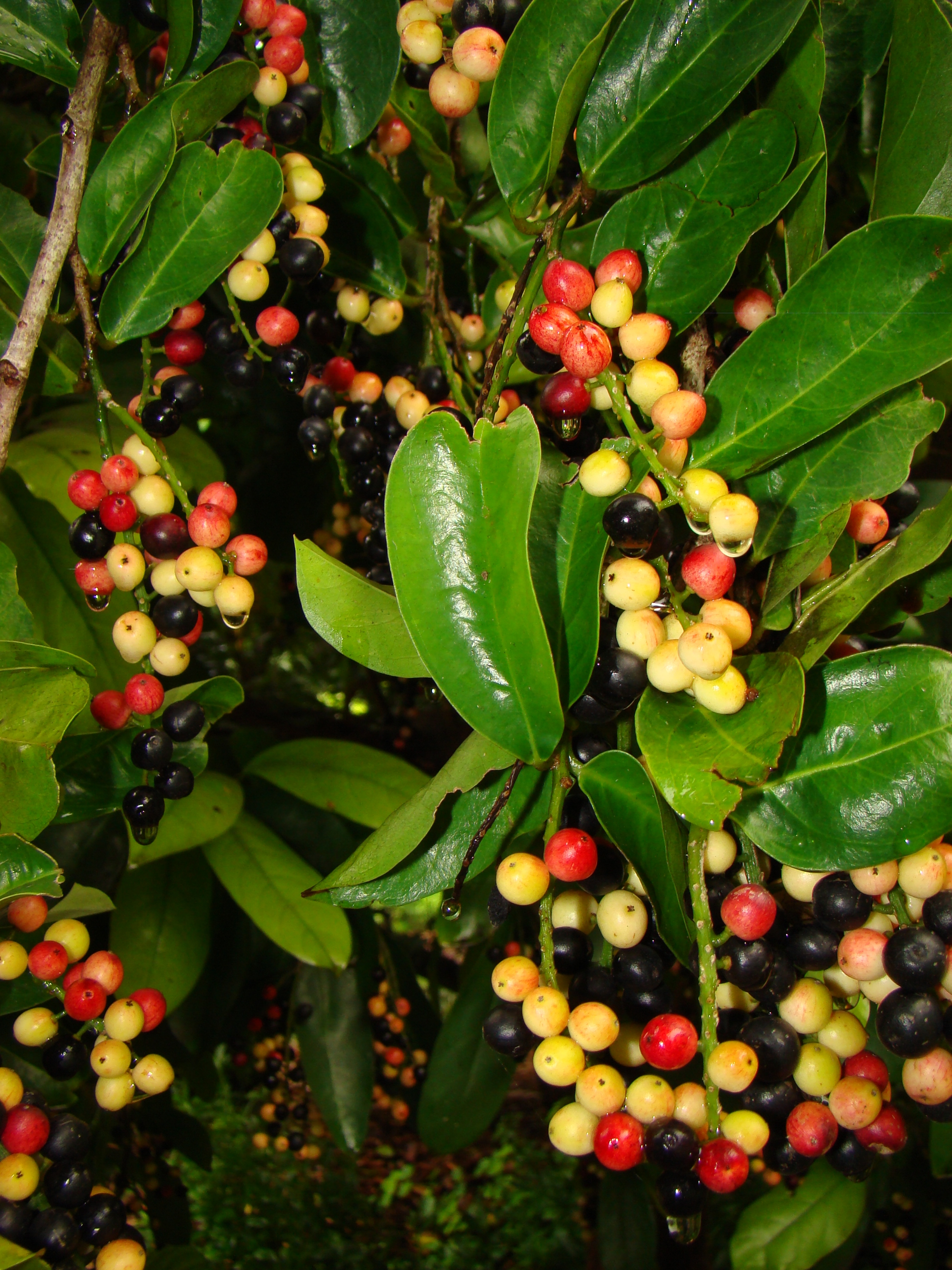 Fruits hanging from a Bignay tree (Antidesma bunius / Euphorbiaceae) in The Kampong, Coconut Grove, Florida.